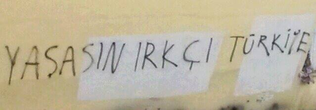 The words, ‘Long Live Racist Turkey,’ spray-painted on a wall in Kadıköy, Istanbul.